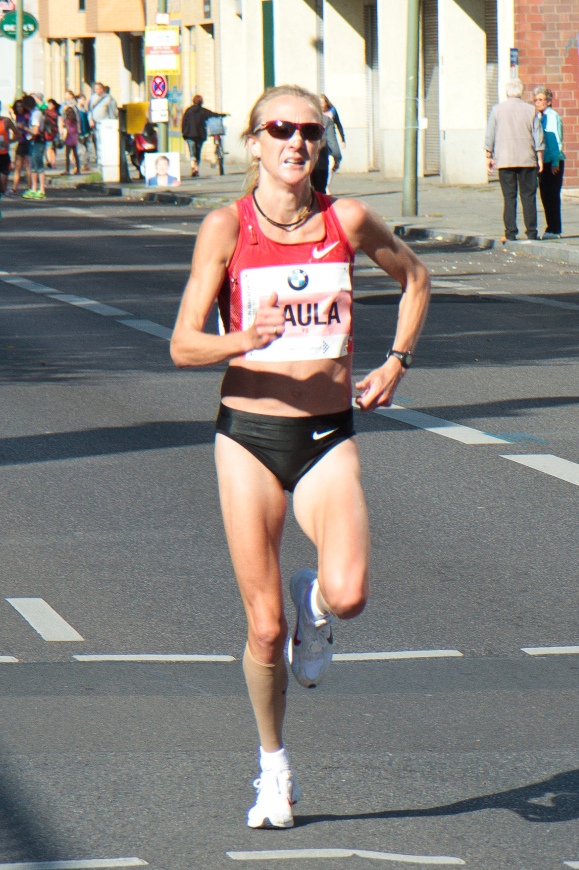 Paula Radcliffe at the Berlin Marathon 2011